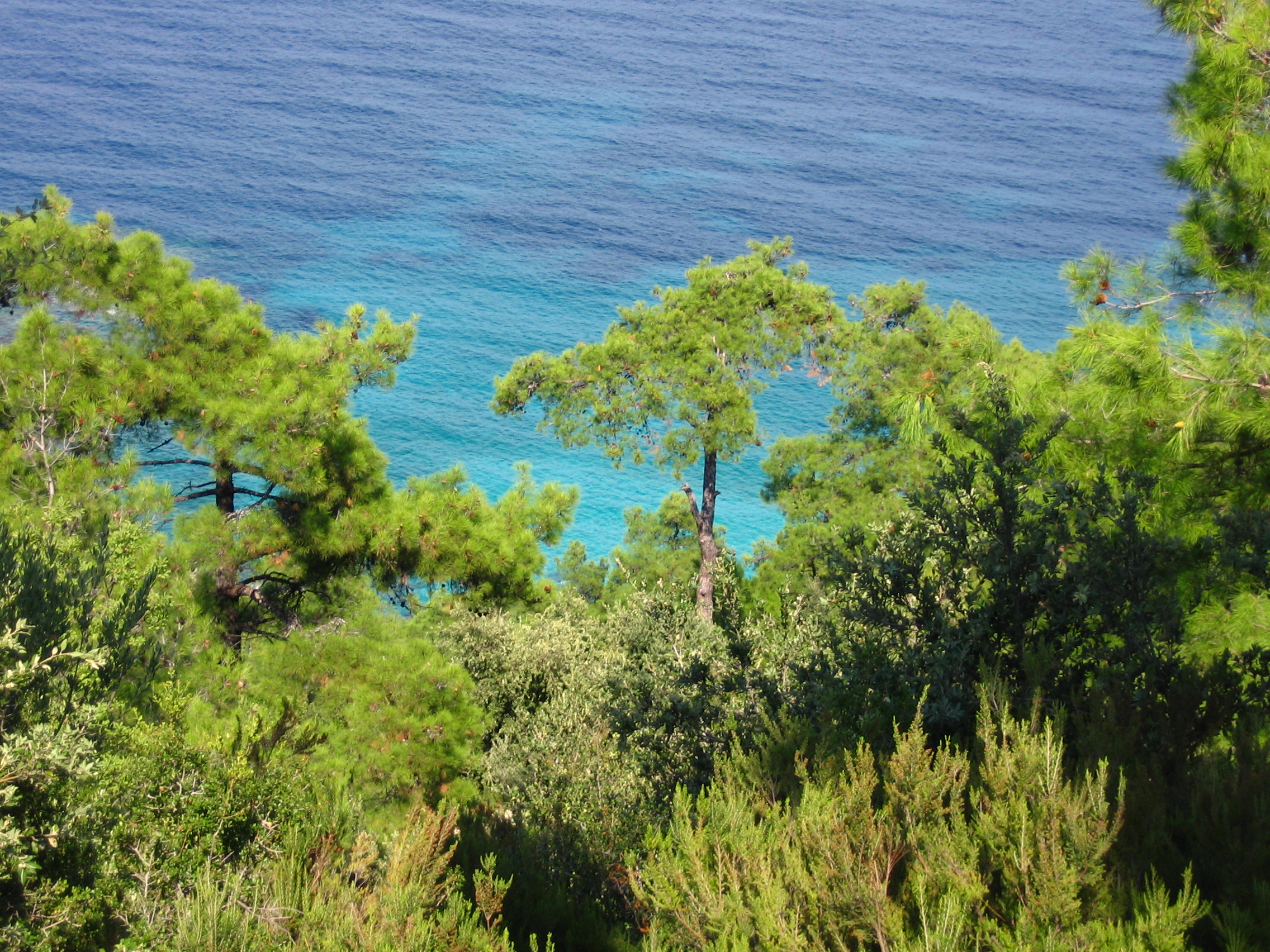 Pinus brutia on the island of Thasos / Greece